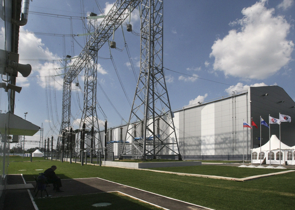 “Zapadnaya, a new substation, 500 kW Moscow energy ring”. Zapadnaya, a new substation of the 500 kW Moscow energy ring, commissioned in the Krasnogorsk district, Moscow region, by the federal grid company "United Energy Systems".